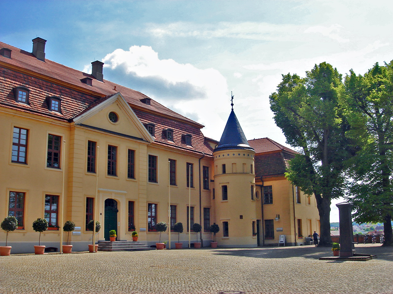 Baroque castle of Stavenhagen in Mecklenburg-Vorpommern, Germany. Built in 1740, modified in 1890 (the tower was added then).